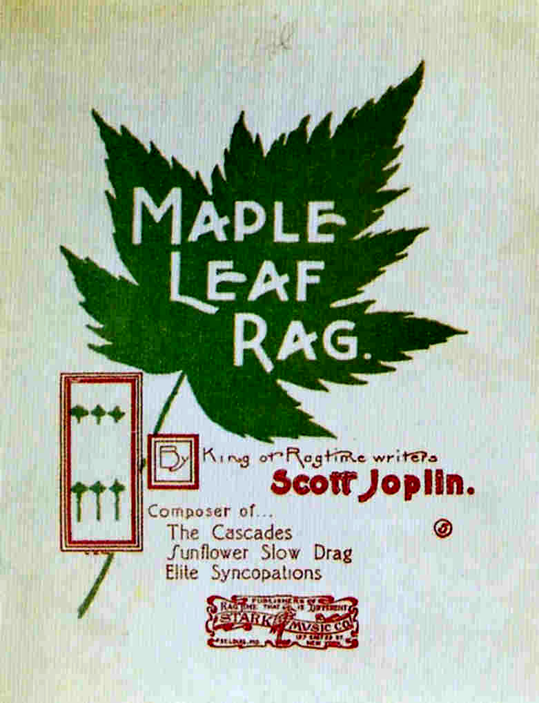 Title of the first score of Scott Joplins Maple Leaf Rag. Published by John Stark in 1899.